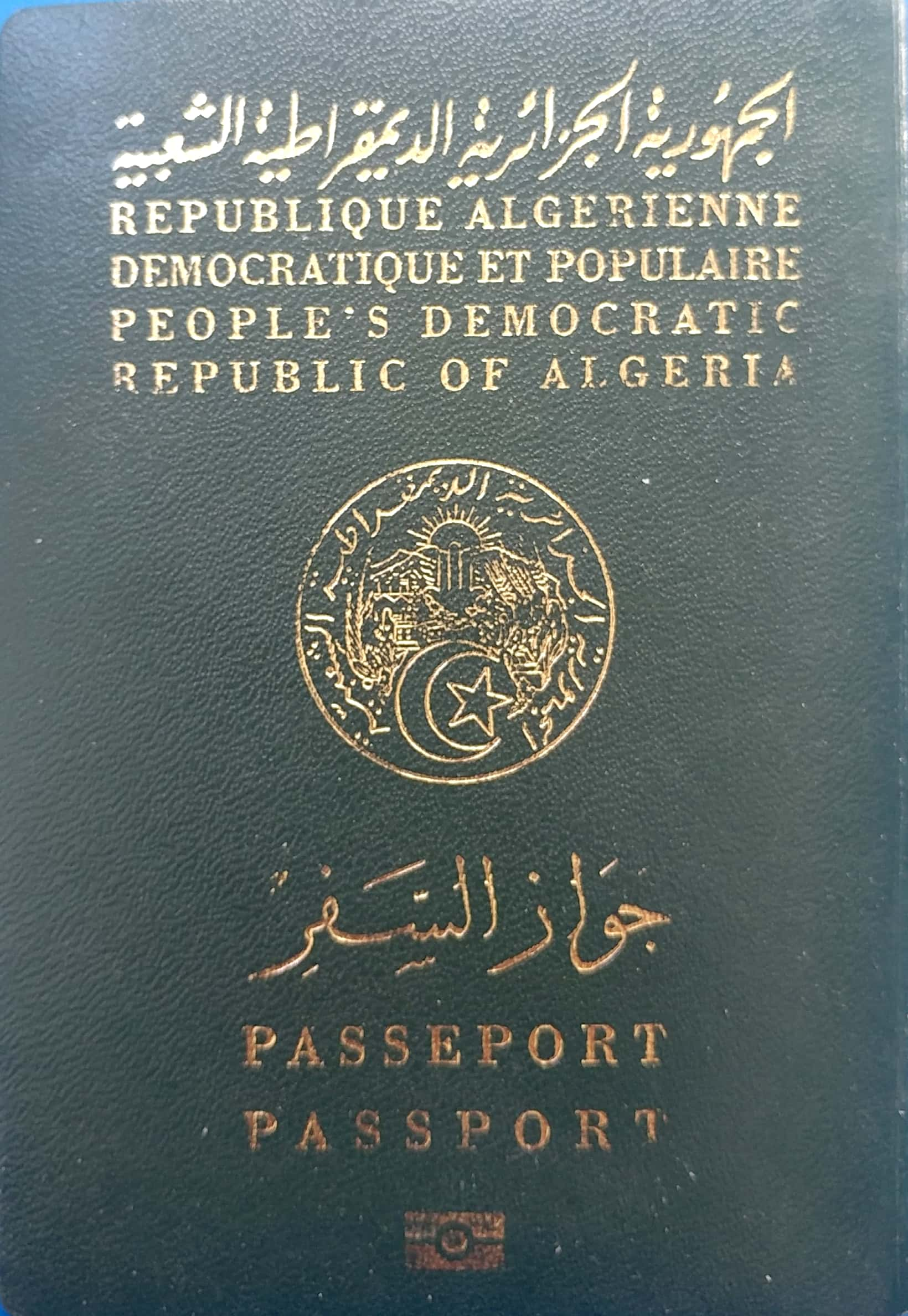 Algerian passport